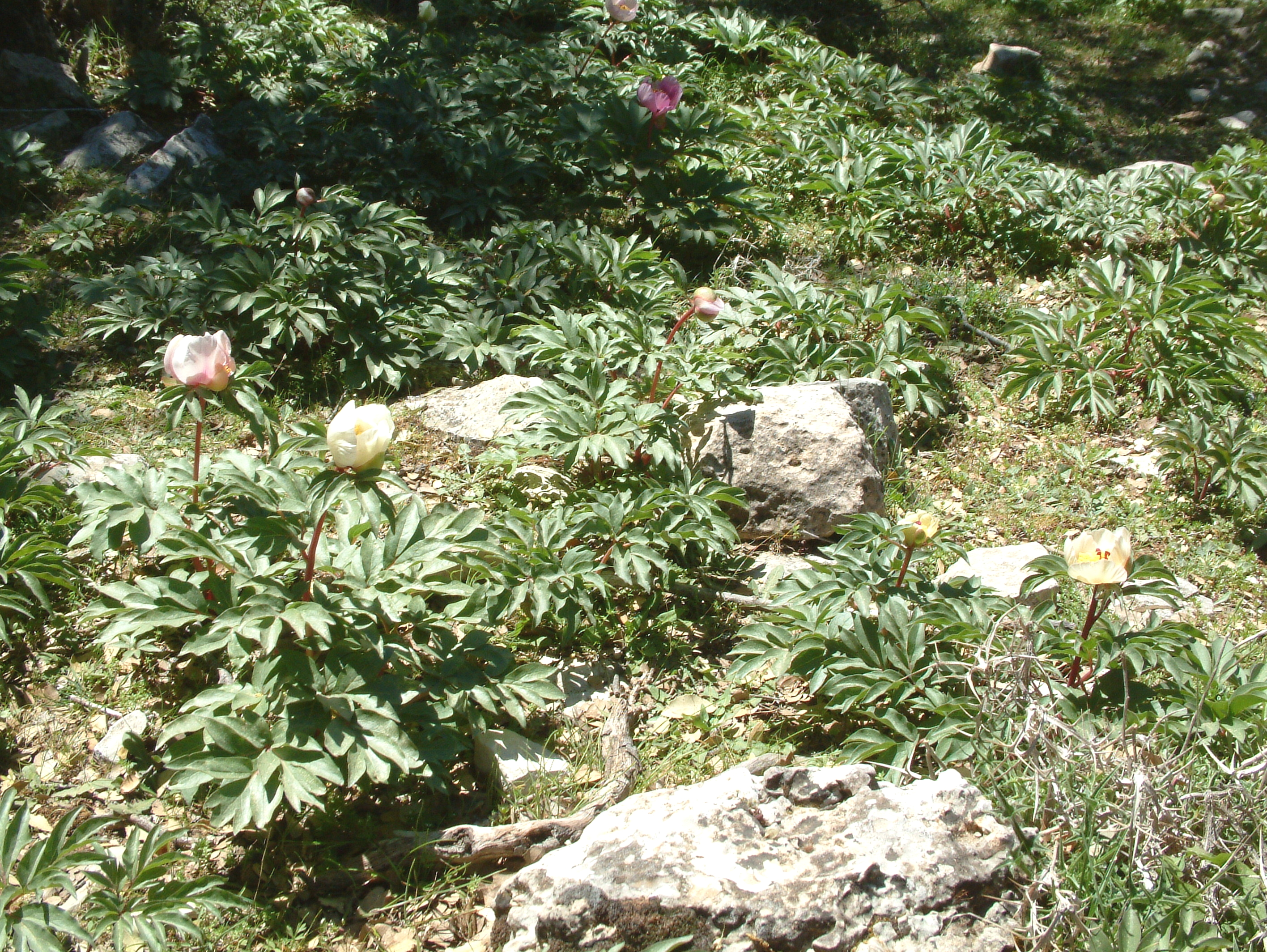 This is a photography of Natura 2000 protected area with ID GR4320010